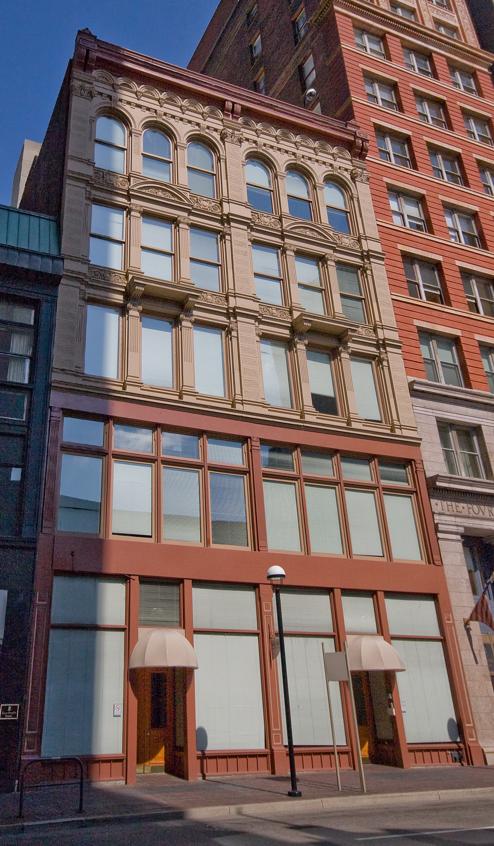 John Church Company Building in Cincinnati, Ohio. Home of the Cincinnati office of the John Church Company. Photo by Greg Hume